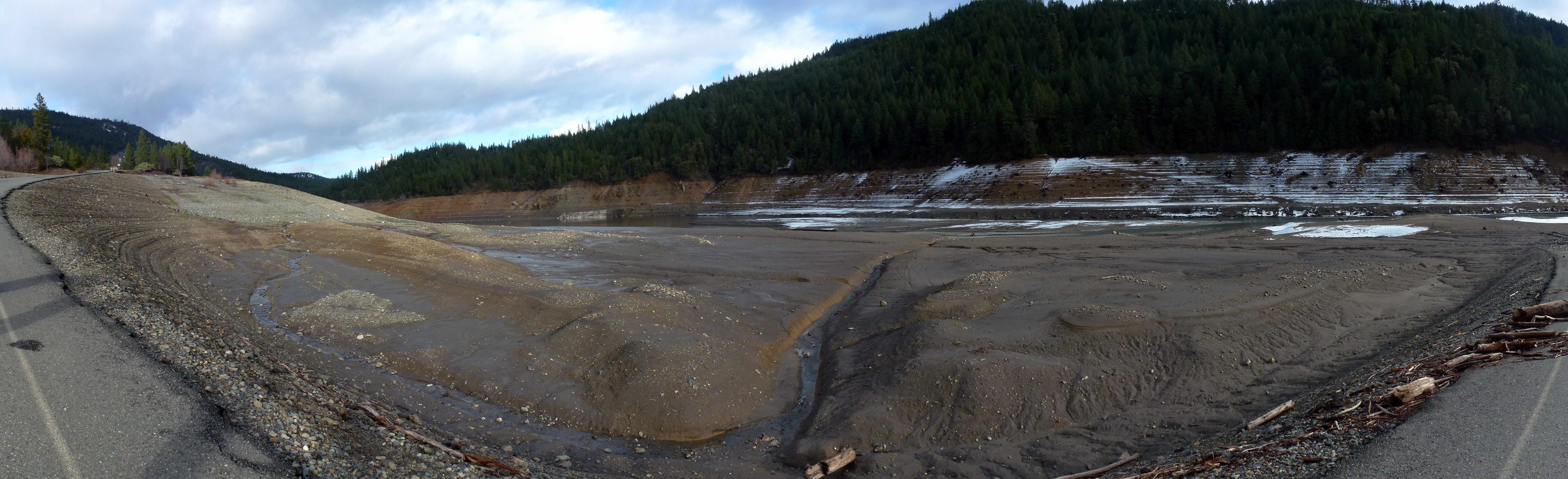 Mud flats at the south end of Applegate Lake where the town of Copper formerly stood. This area is usually submerged beneath over 60 feet (18 m) of water. Copper Boat Ramp, from which this panorama was taken, is the remains of the highway that once serviced Copper.